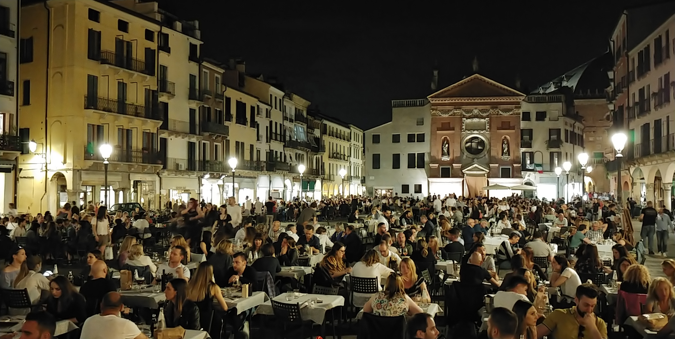 Piazza dei Signori at Padova in Italy